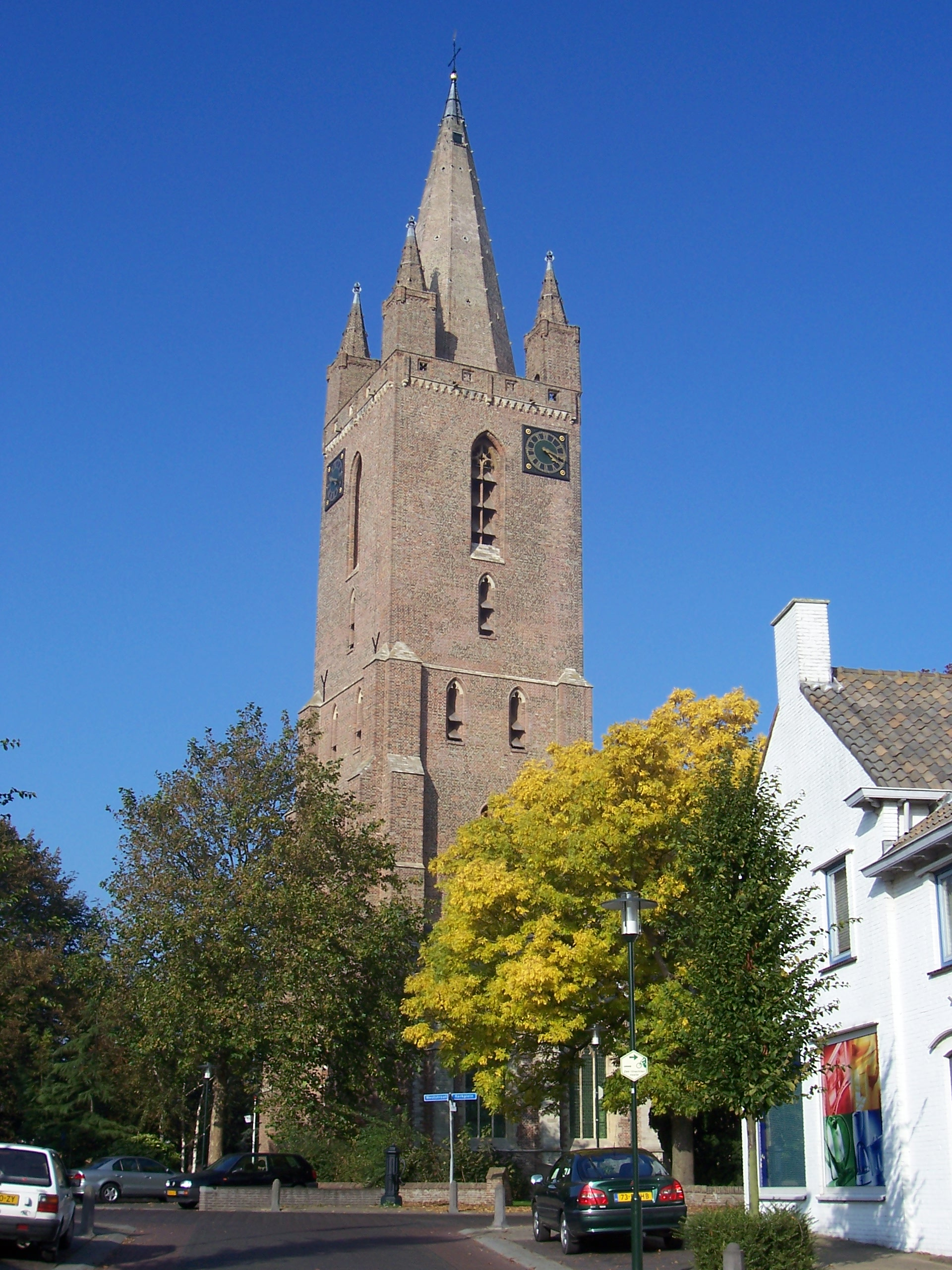 Church in Kapelle in the dutch province of Zeeland. This protestant church is named Geerteskerk.